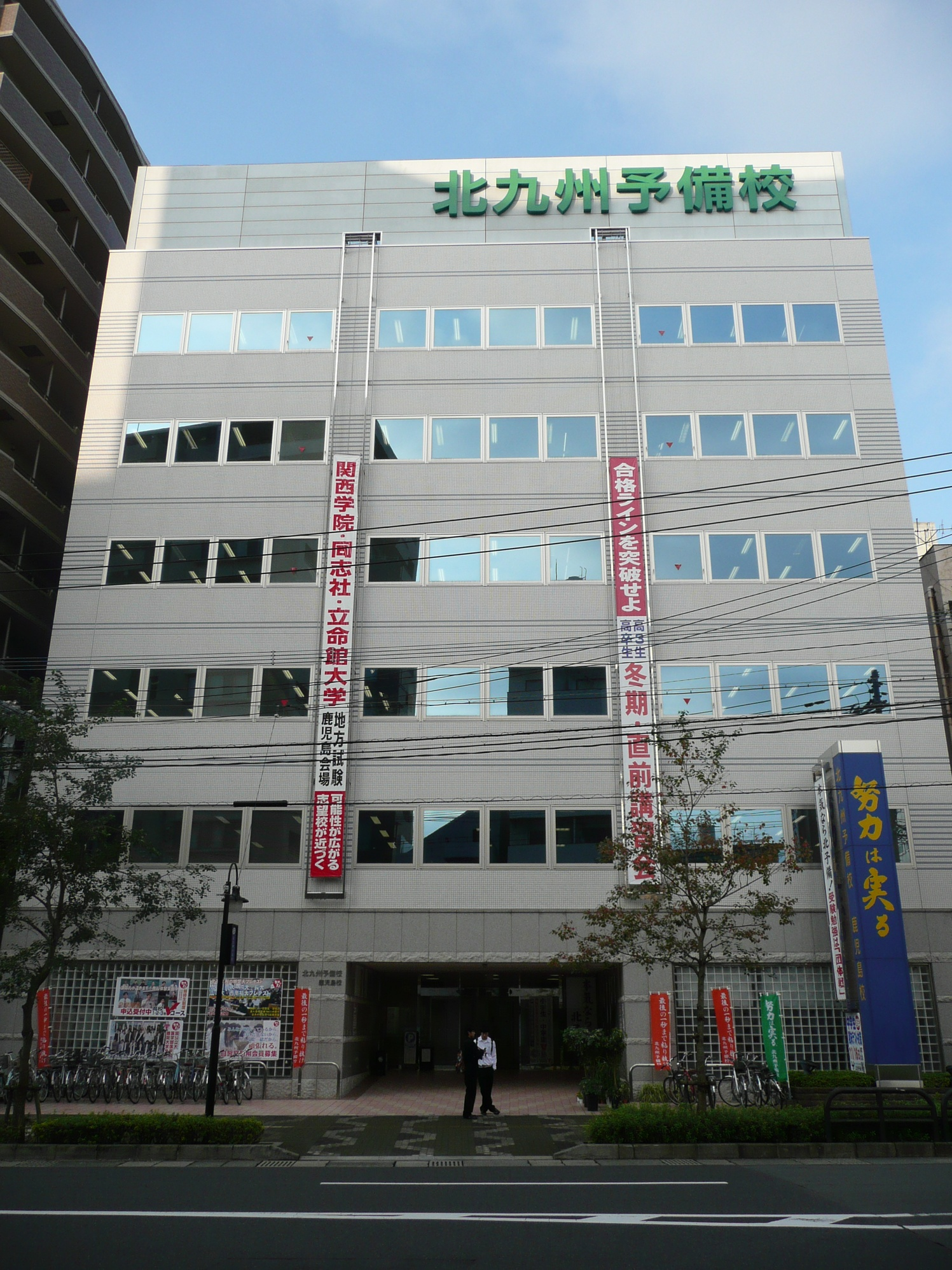 Kitakyushu Yobiko (Kagoshima City, Japan)